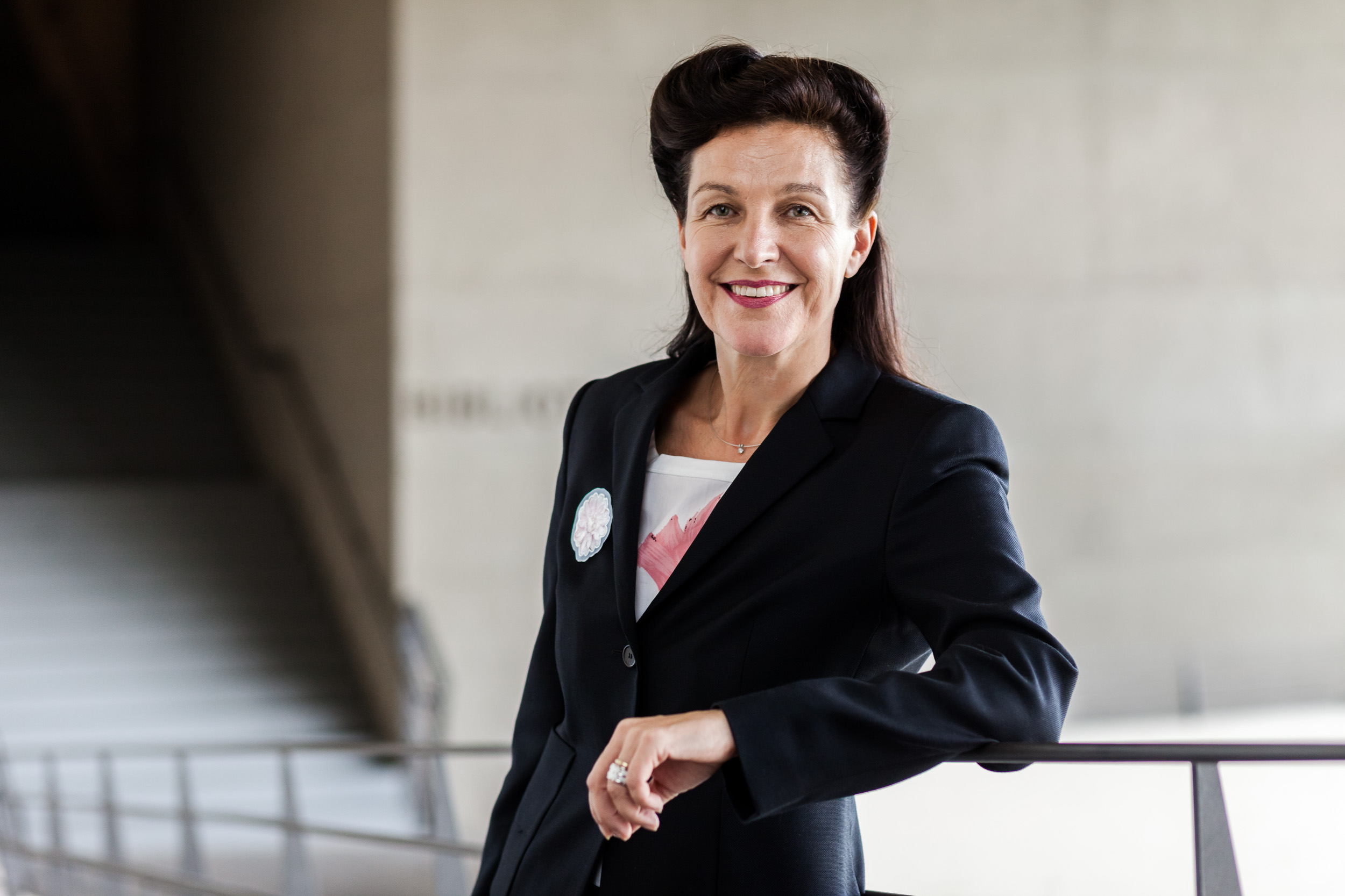 HFF-Präsidentin Prof. Bettina Reitz